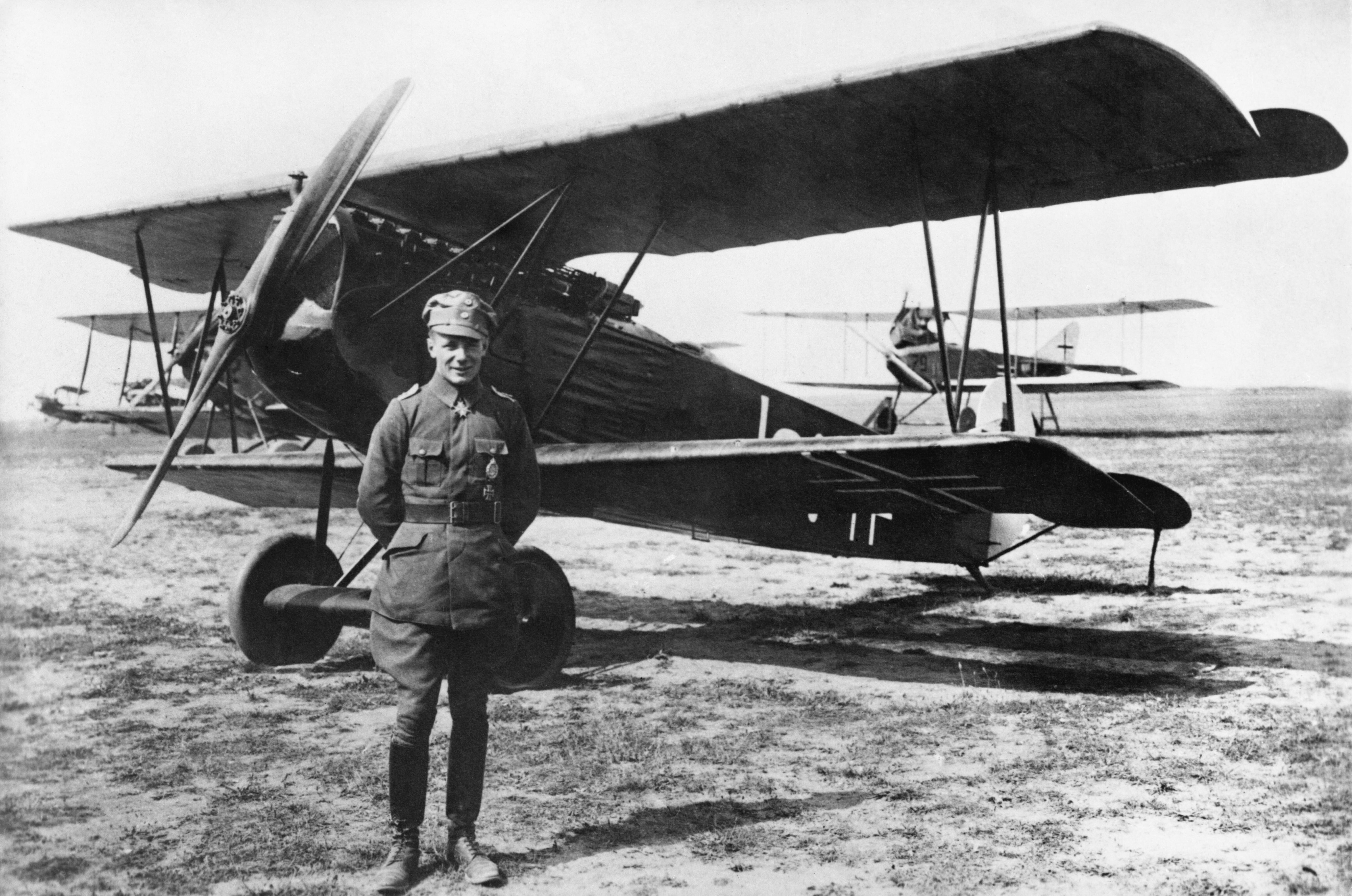 photograph Oberleutnant Ernst Udet with his Fokker DVII. The machine bears the distinguishing mark 'LO'.